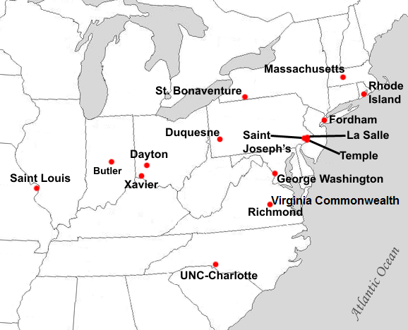 Locations of Atlantic 10 Conference full member institutions. Personal creation in Photoshop; All rights released for anyone to do whatever they want with it.